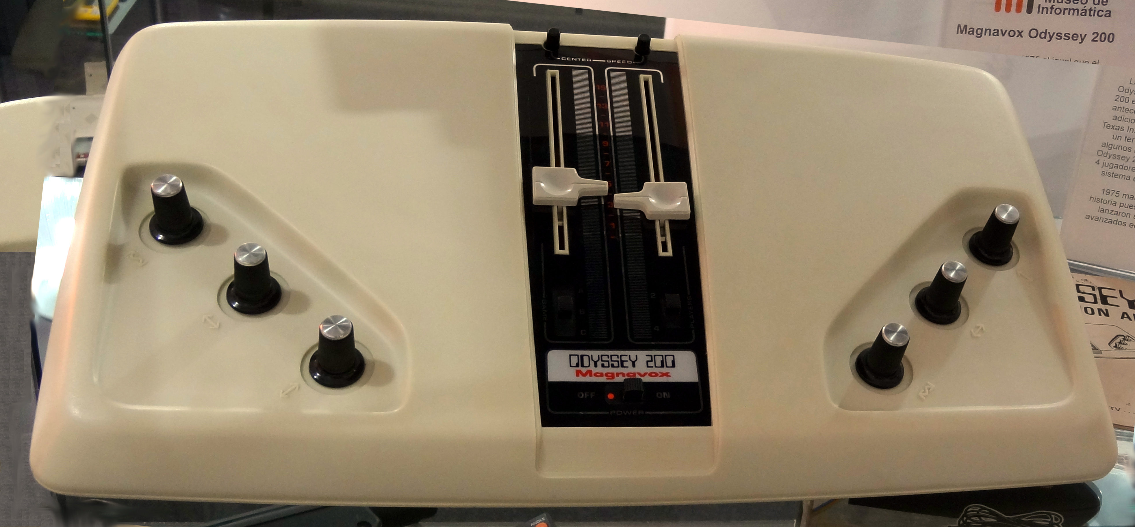 Magnavox Odyssey 200. Pong console